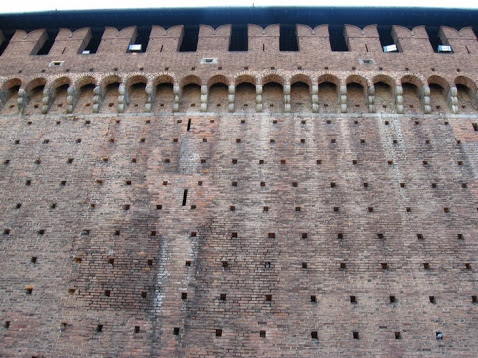 Stenes of a castle SFORZO IN MILAN